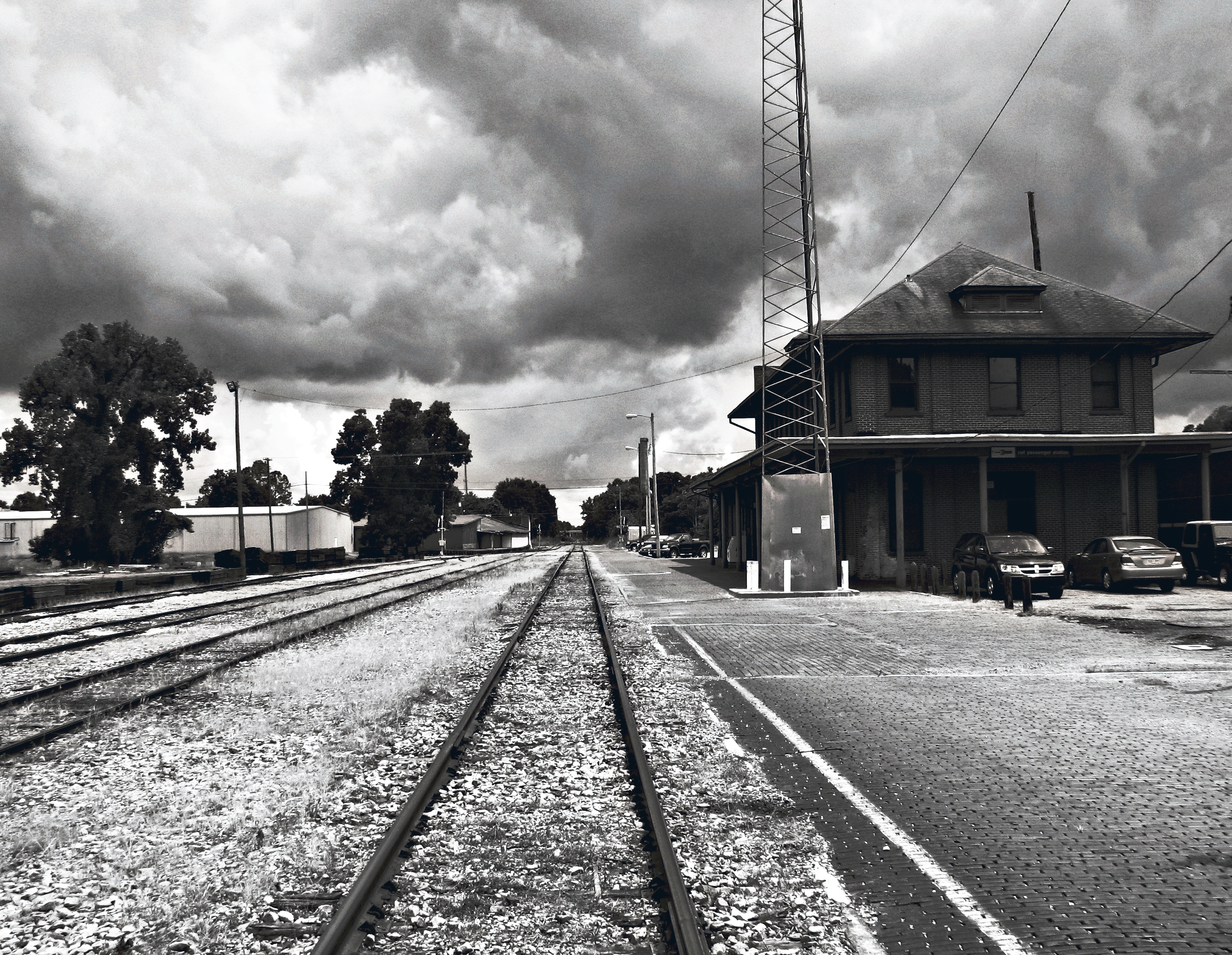 Grenada Mississippi Train Depot